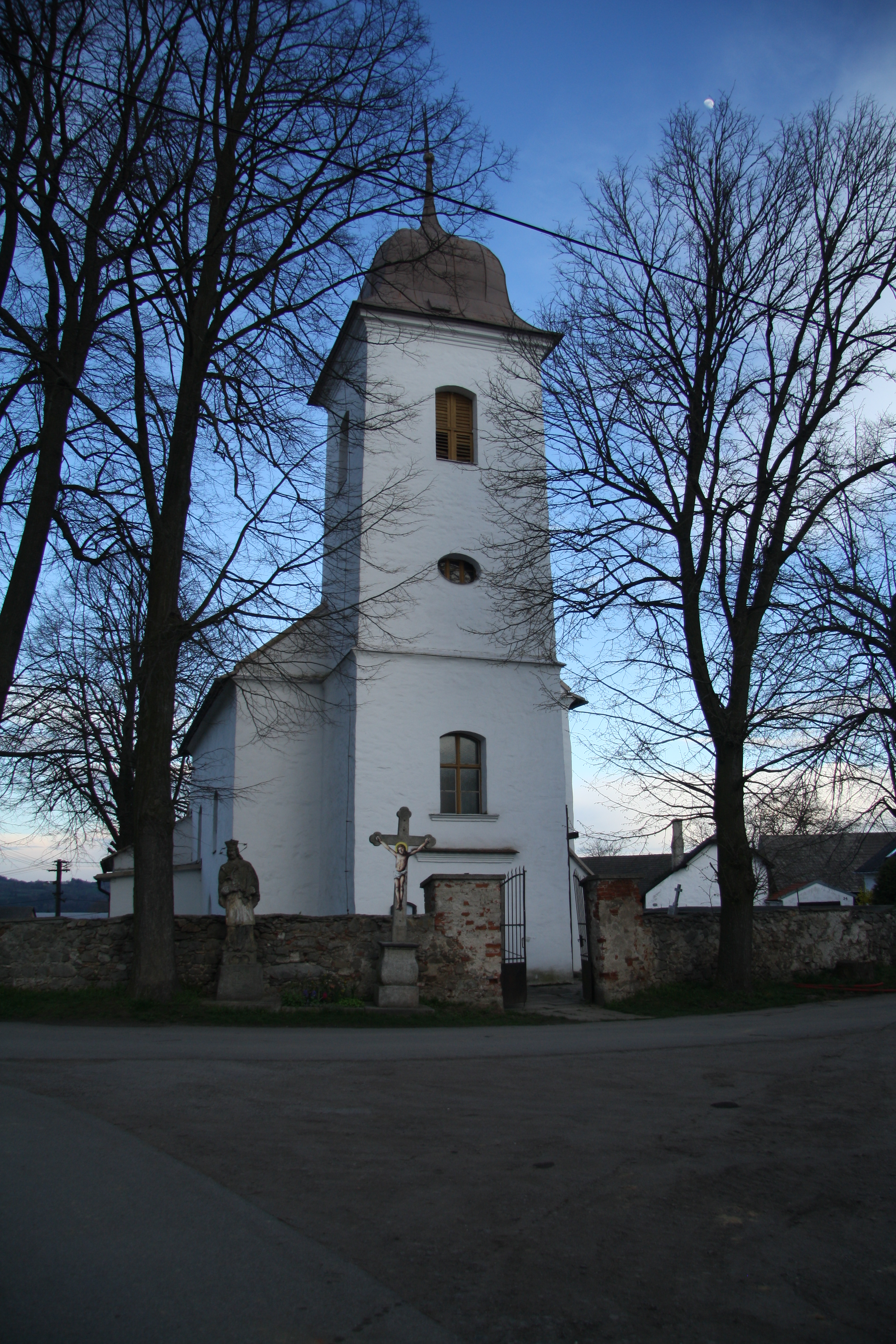 Overview of Church of Saint John the Baptist in Střížov, Brtnice, Jihlava District.